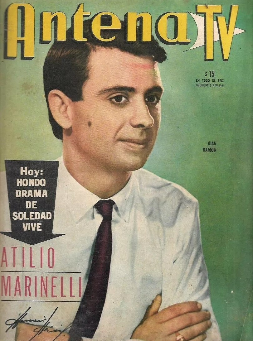 Juan Ramón on Antena TV cover, 1964